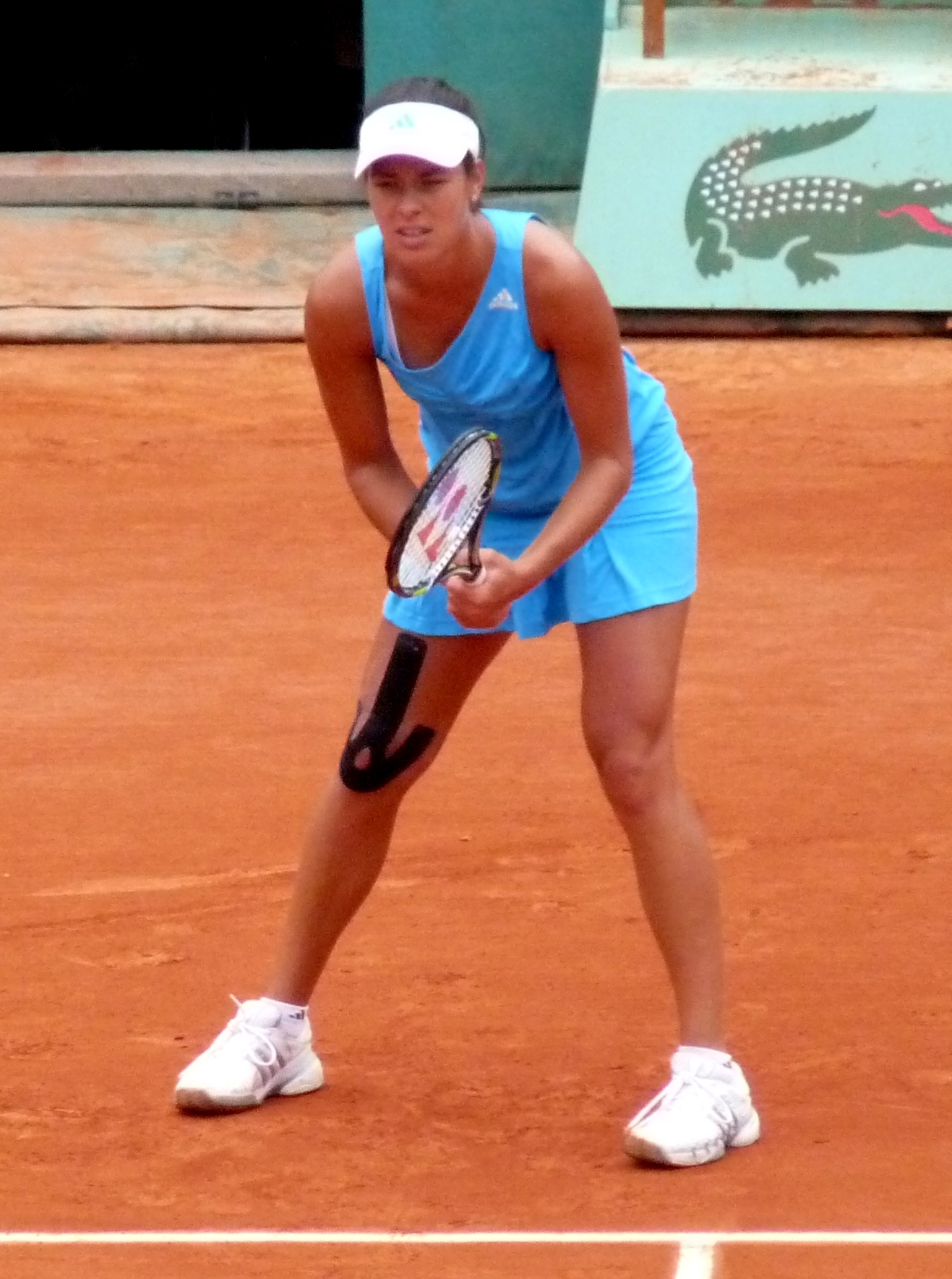 Ana Ivanović against Iveta Benešová in the 2009 French Open third round